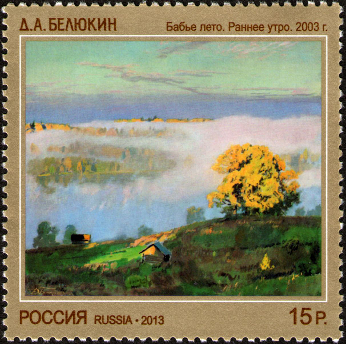 The contemporary art of Russia (the ongoing series, issue III).Indian Summer. The Early Morning by Dmitry Belyukin. 2003. Oil on canvas. 70×80 cm.Dmitry Anatolievich Belyukin (born 1962) is a Russian painter, a People's Artist of the Russian Federation, a full member of Russian Academy of Arts. Dmitry Belyukin is a member of the art group of the Grekov Studio of Military Art.The stamp of Russia, 15.00 Rubles, 17 June 2013, PTC Marka Catalogue No 1703, Michel No 1935. Coated paper, varnish coating, bronze paste. Offset printing. Perforation: comb 11½×11½. Size of the stamp: 50×50 mm. Print run: 300,000.